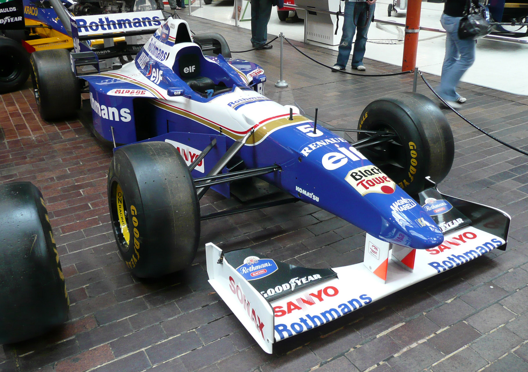 1996 Williams-Renault FW18, National Motor Museum in Beaulieu.